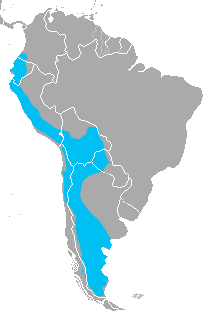 Based on File:Leopardus_colocolo_range_map.png and the description given in the text. This has resulted in a fairly crude map, but it at least gives on an idea of where this species may live.